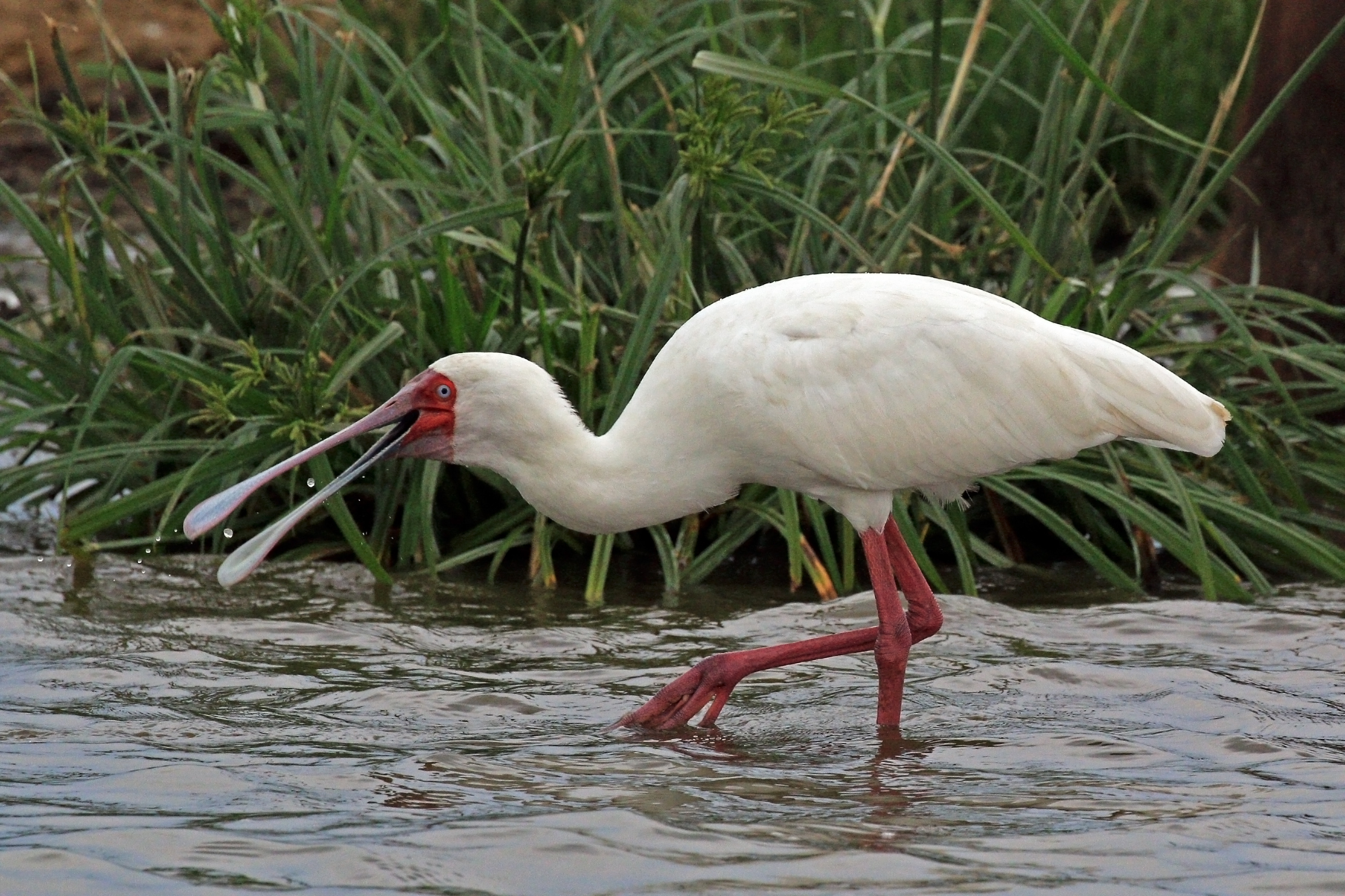 African spoonbill (Platalea alba), Kazinga Channel, Uganda